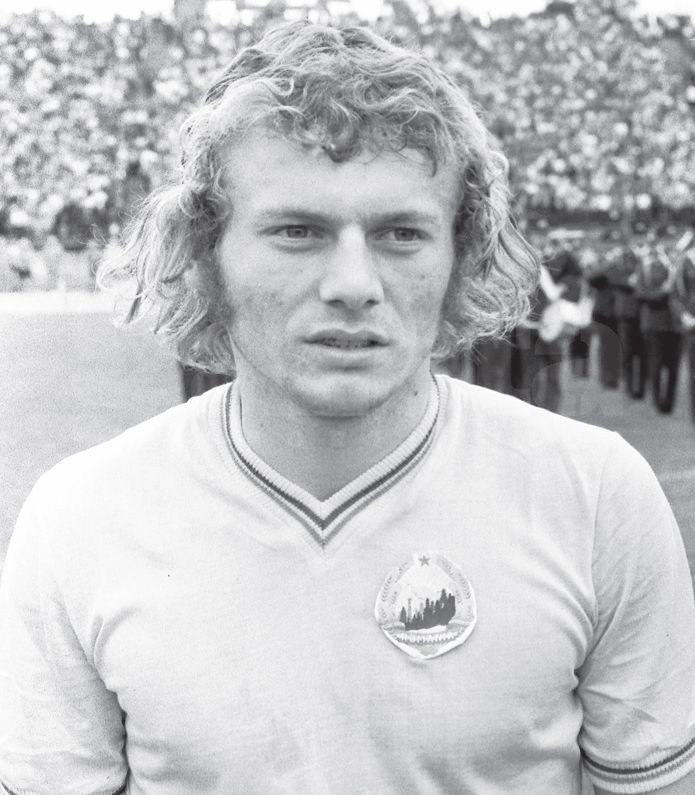 Ilie Balaci with the national team